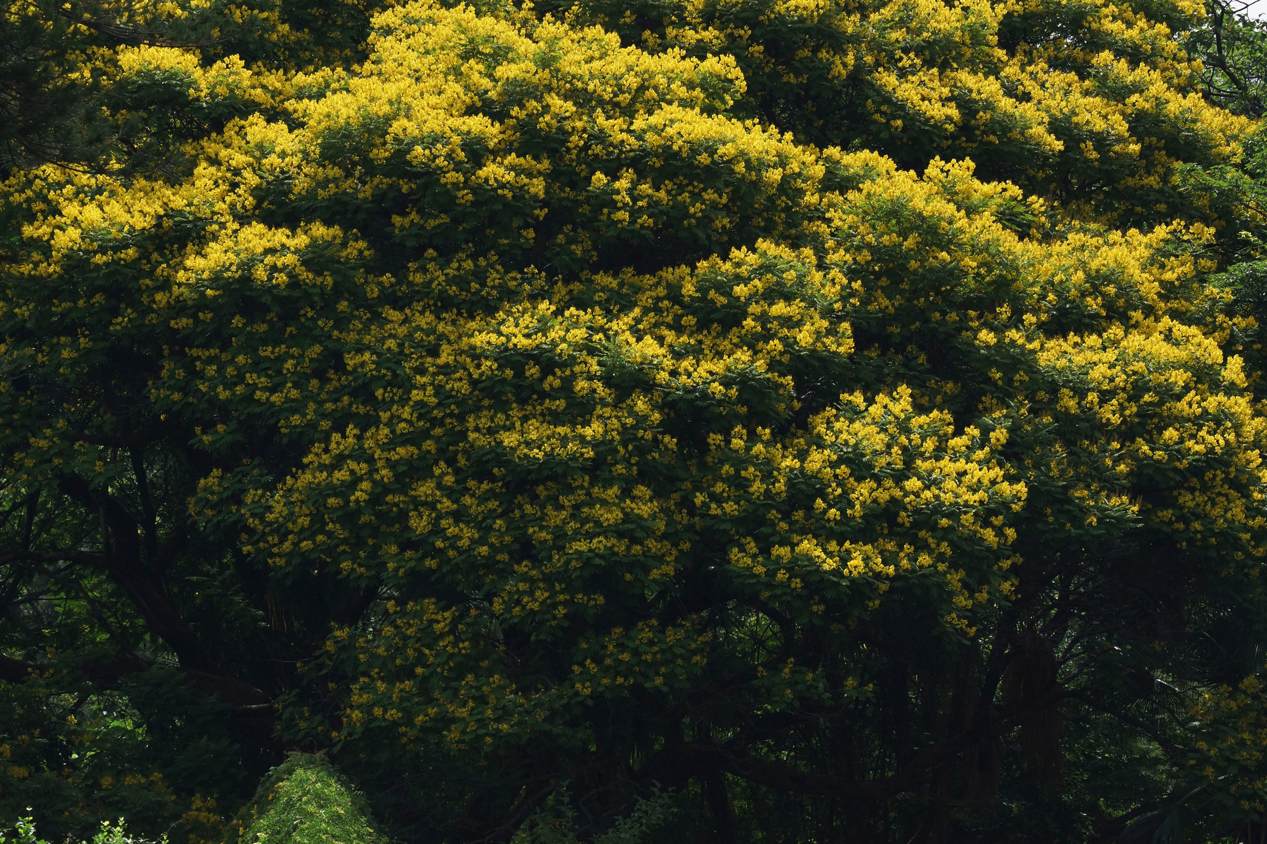 Blossom time at FRI Dehradun